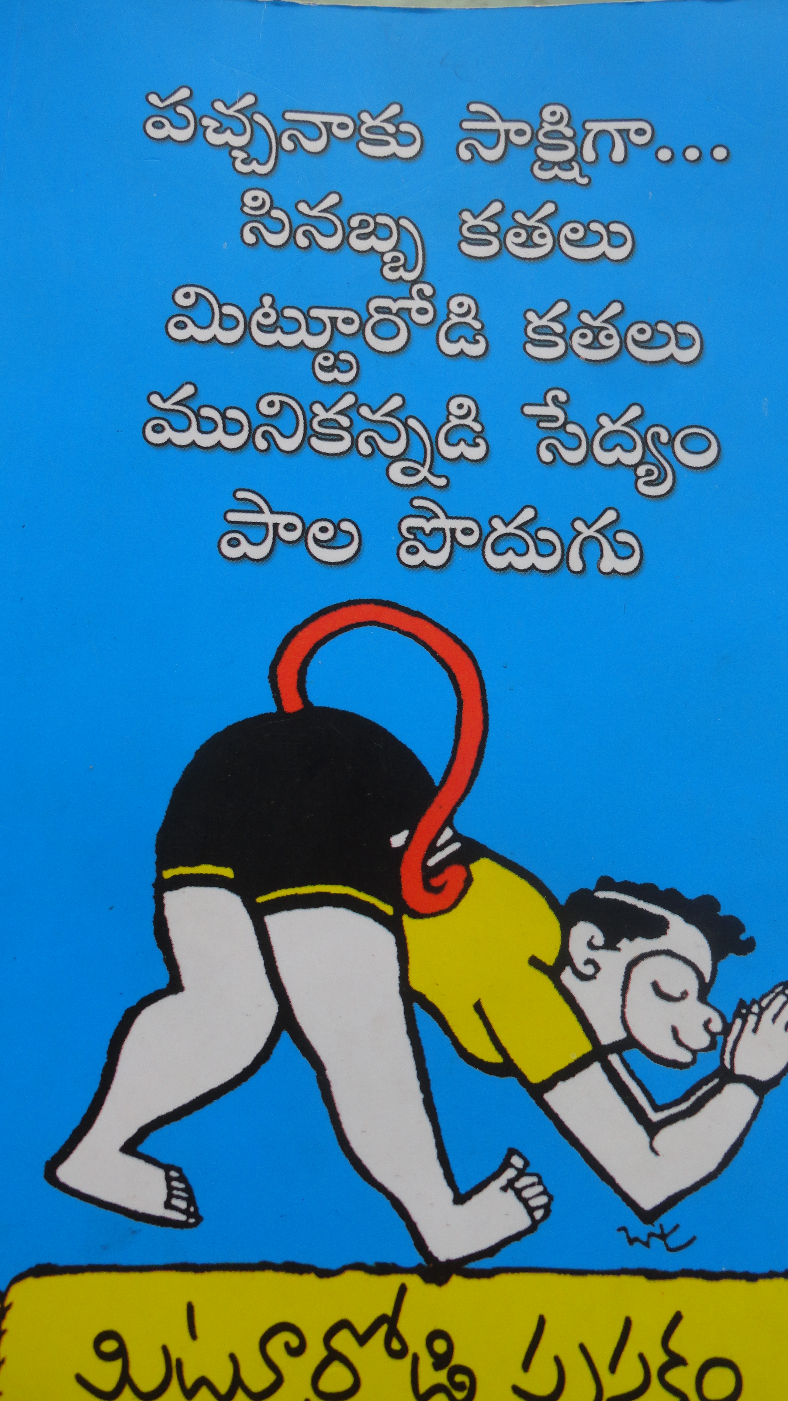 Mitturodi pustakam